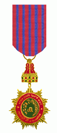 Order of Merit of the Soesoehoenan of Soerakarta